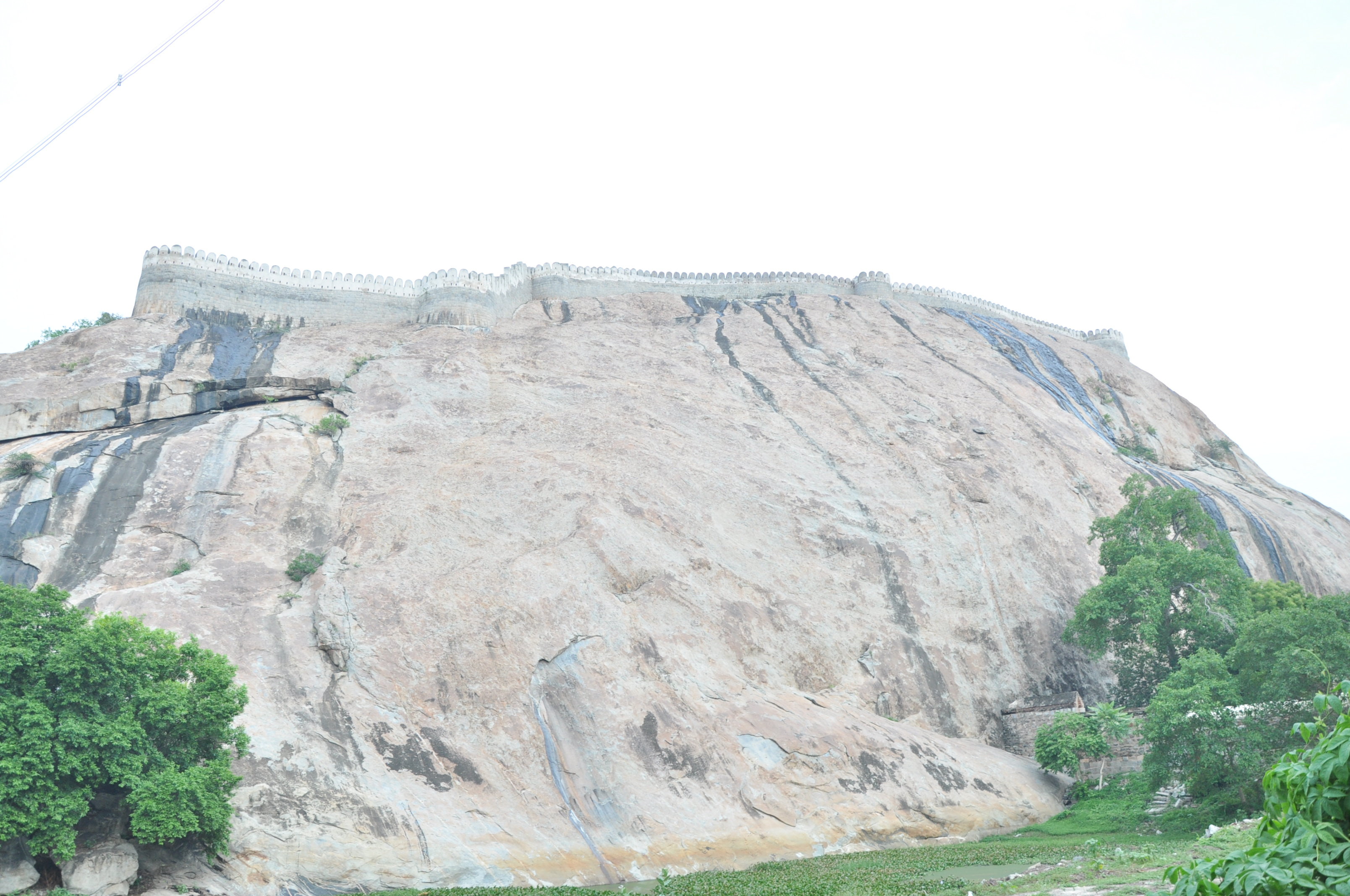 "Hill Fort of Namakkal ".Location: Namakkal and district, Tamil Nadu, India.